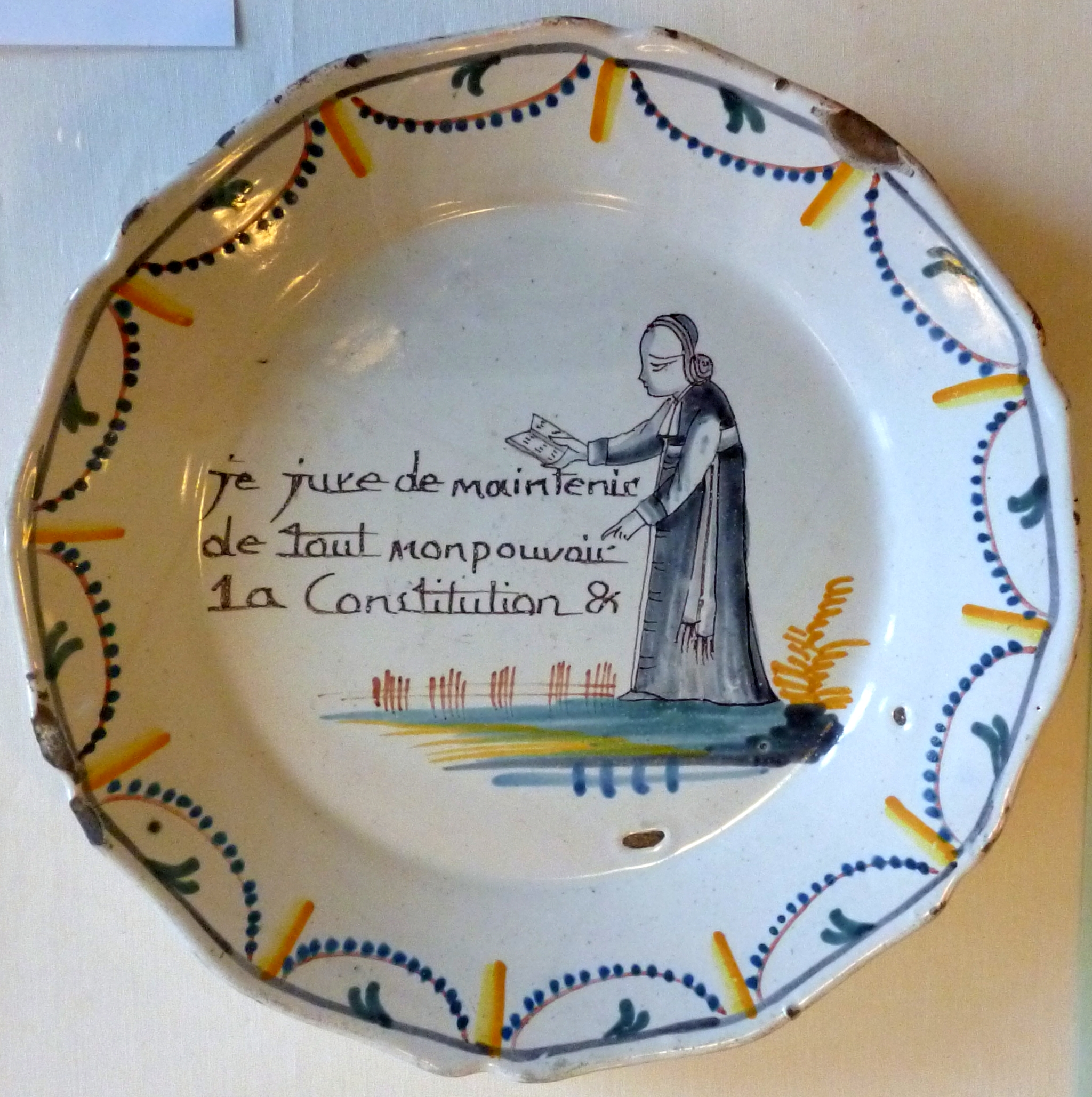 The plate shows a priest who holds a book, which used to be the bible but now it's a symbol for the constitution. The theme is the oath of the clergy on the constitution. This oath became obligatory in Novembre 1790. The inscription cites part of the oath: "je jure de maintenir de tout mon pouvoir la constitution", 'I swear to maintain the constitution with all my power'.